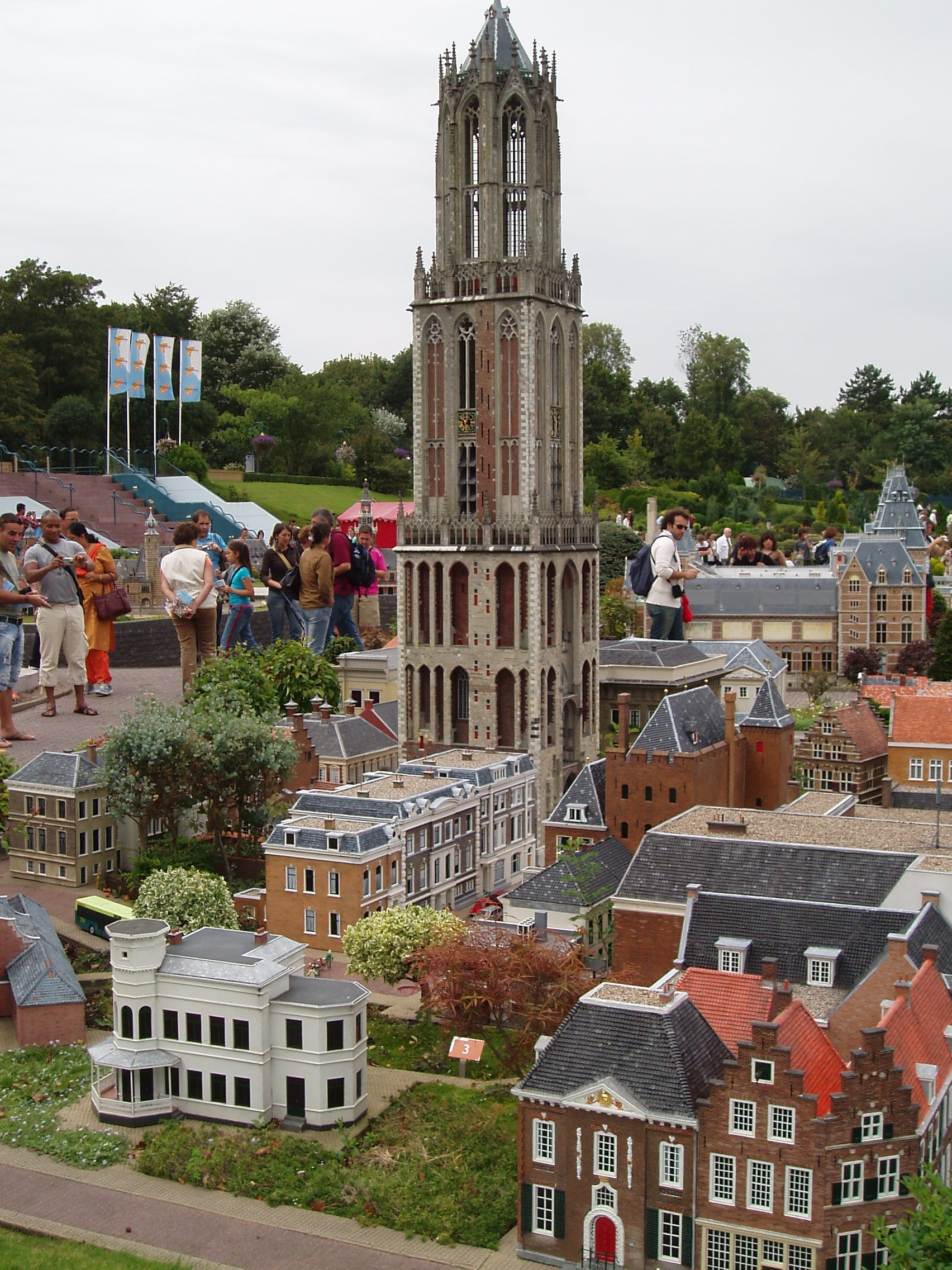 Madurodam in the Hague in the Netherlands; Model of Domtoren in Utrecht